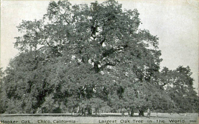 Circa 1910 postcard of the landmark Hooker Oak A former Valley Oak (Quercus lobata) tree (fell in 1977) located in Chico, Butte County, California. A California Historical Landmark.